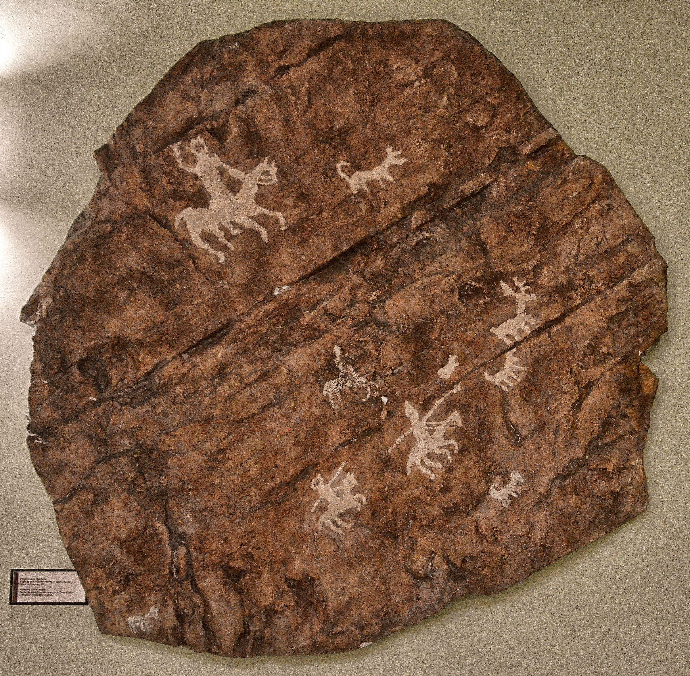 Copy of the Late Bronze Age Tren rock art in the National Museum of History in Tirana, Albania